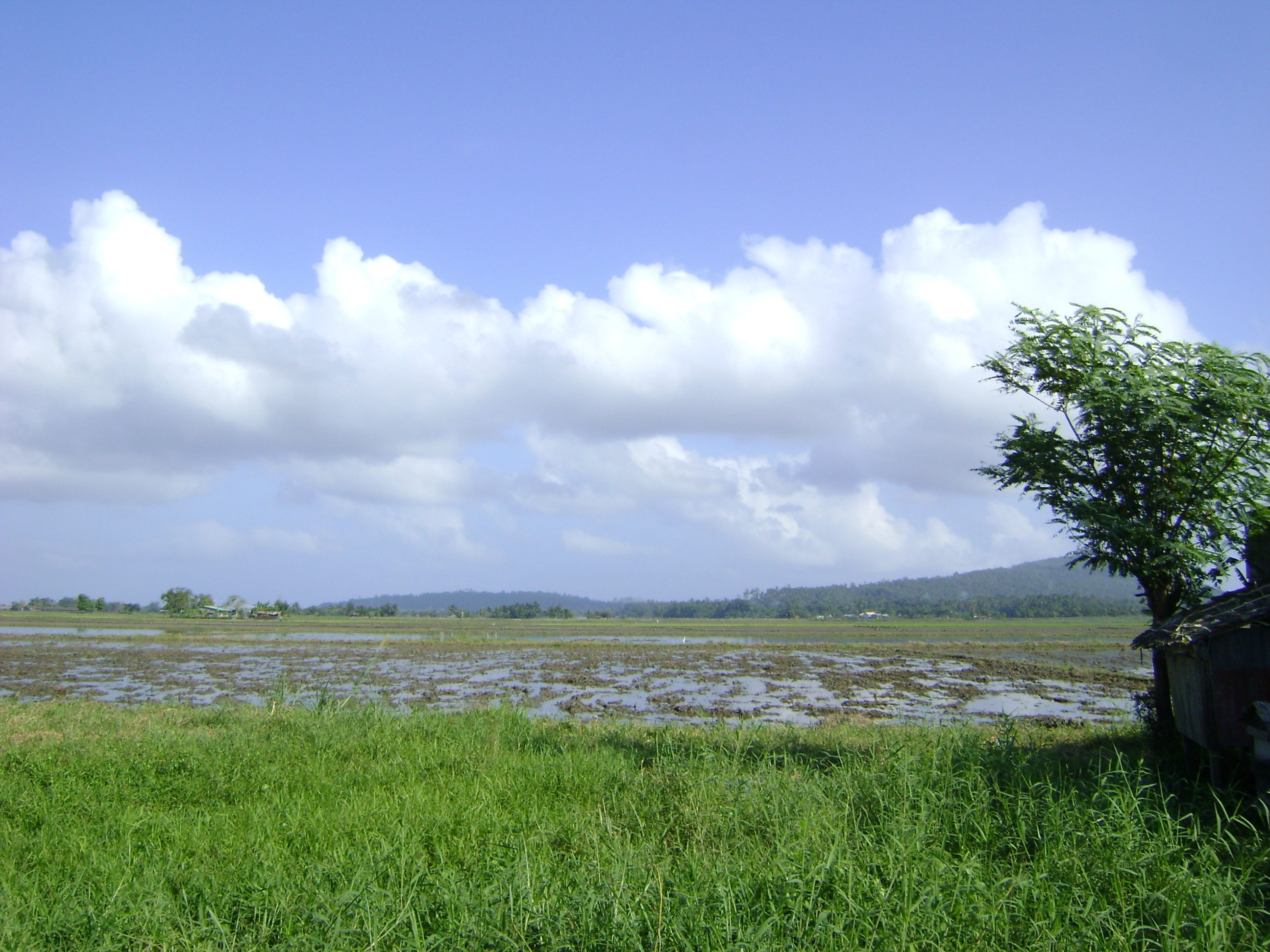 Ricefields at Barangay Bayanan II in Calapan City. The city is one of the Philippines' major rice supplier.